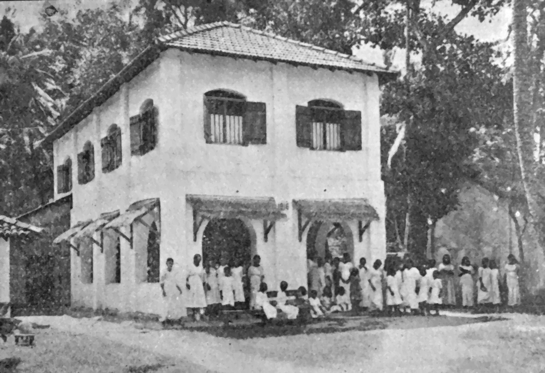 Training College in the precinct of the Musæus Buddhist Girl's College, Colombo.